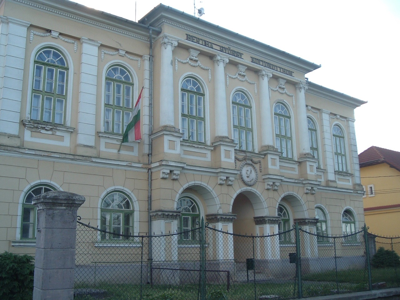 The House of Culture in Rábahídvég (Bertha-courthouse), Hungary